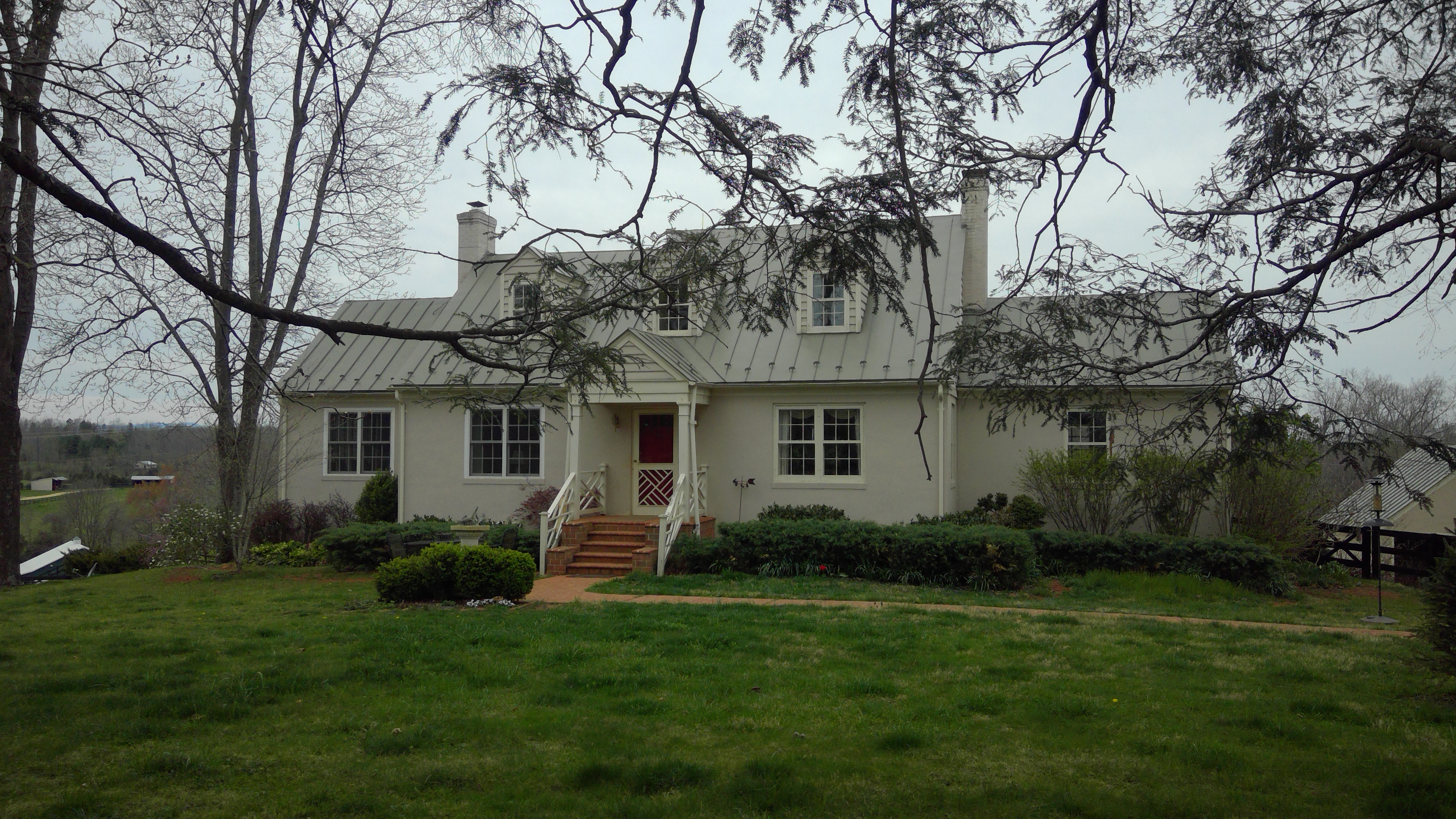 A house on the property at Maple Springs - this may not be the residence on the National Register of Historic Places, but it's at the listed address.